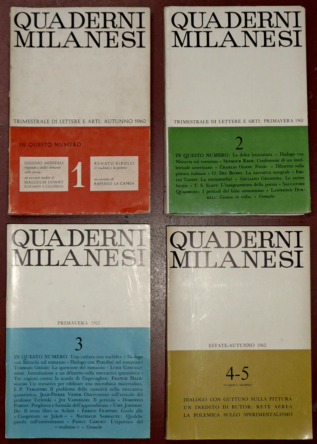 Magazine founded by Oreste Del Buono, Tomaso Gillio, Domenico Porzio and Giuseppe Ajmone with the intent to open debates on the arts and on the literature consulting and calling to dialogue painters, writers and poets.